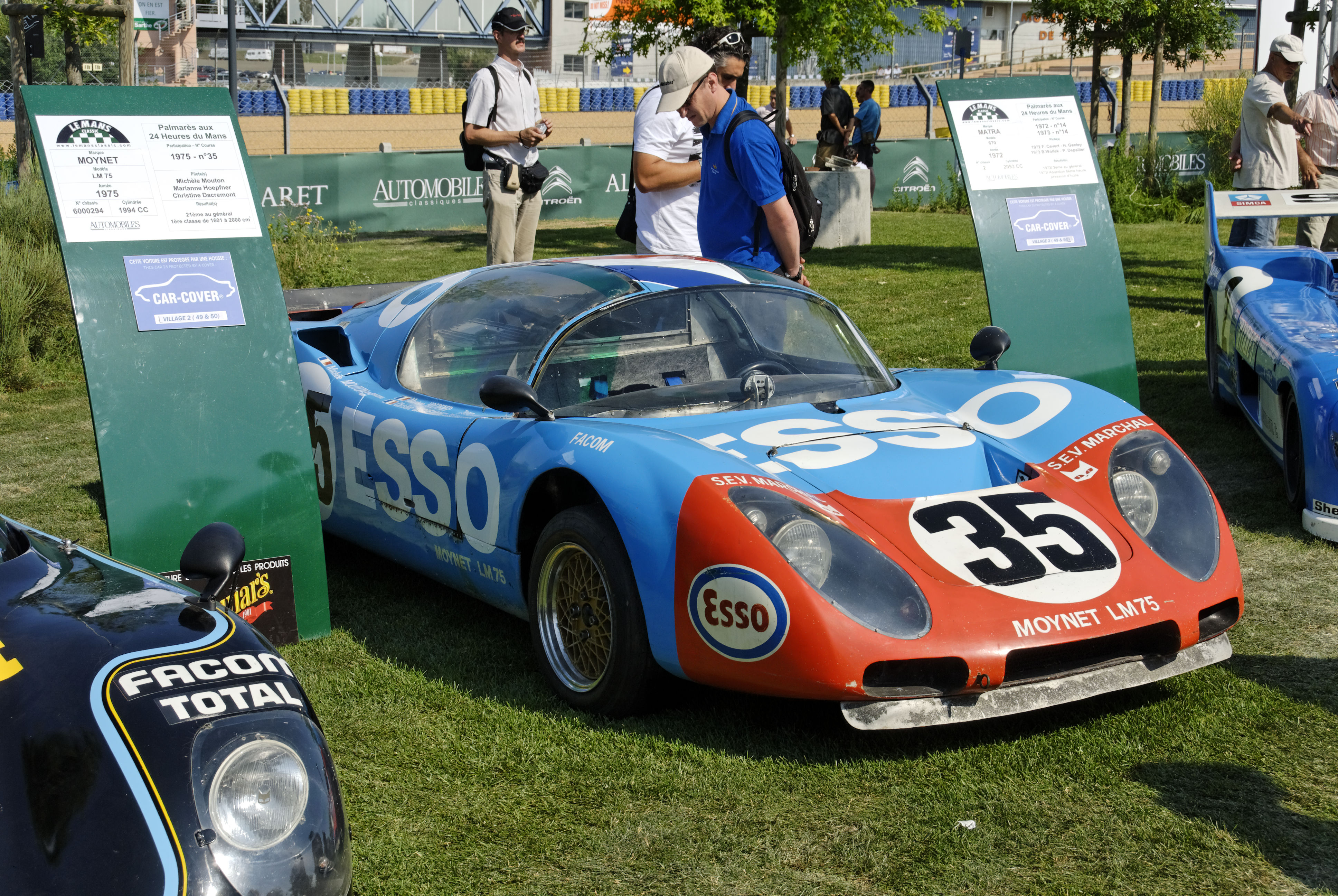 The Moynet LM 75 that won the two-litre prototype class at the 1975 24 Hours of Le Mans, driven by Michèle Mouton, Marianne Hoepfner and Christine Dacremont.